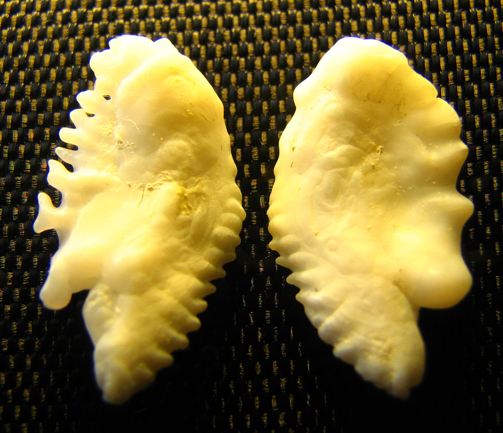 Pair of Sagittae otoliths (1.8 cm long) from a ocean perch (Sebastes mentella); the skull these otoliths are from is about 10 cm of length and 5.5 cm of width.